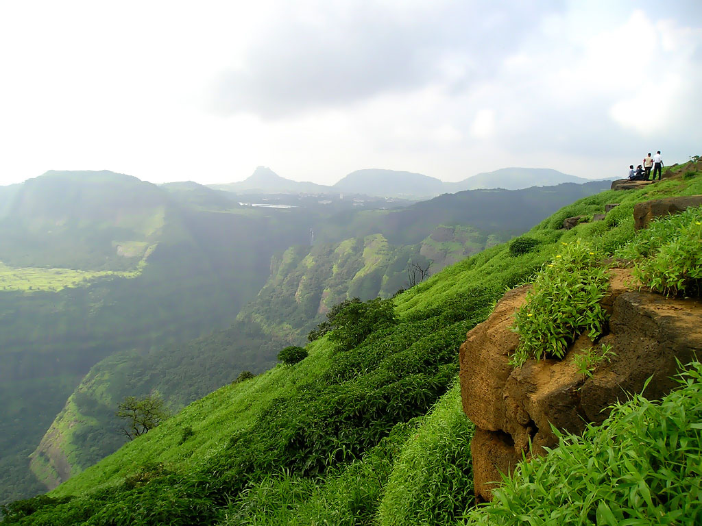 Lonavala Hill station, India